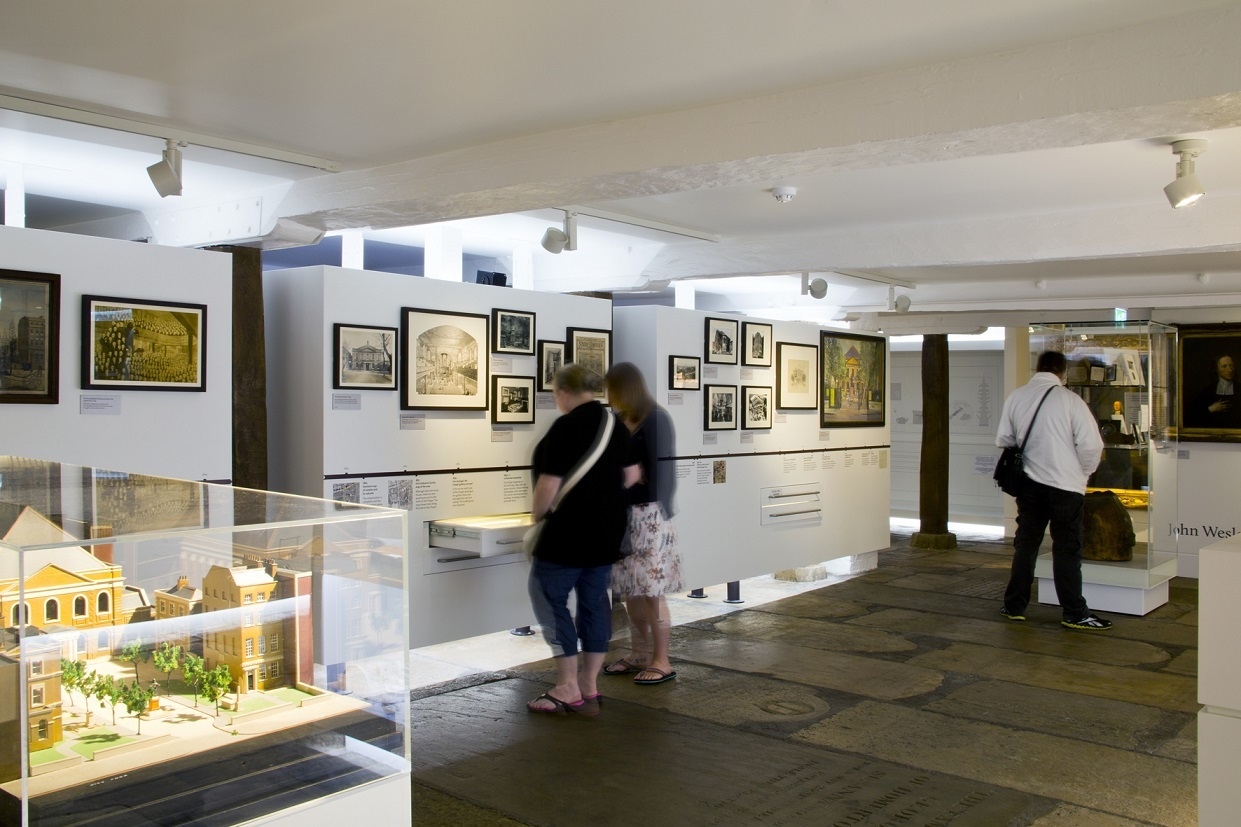 Museum of Methodism in London